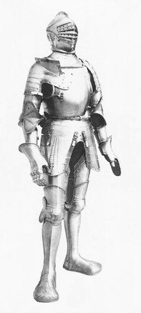 Photo form Andreas Groll (photographer, 1812–1872)), Armour / Rüstung letterpress title: Standing Full Body Armor (XLVI Friedrich III., Graf Von Fürstenberg) Medium: Salt print Photo Date: 1857 Print Date: 1857